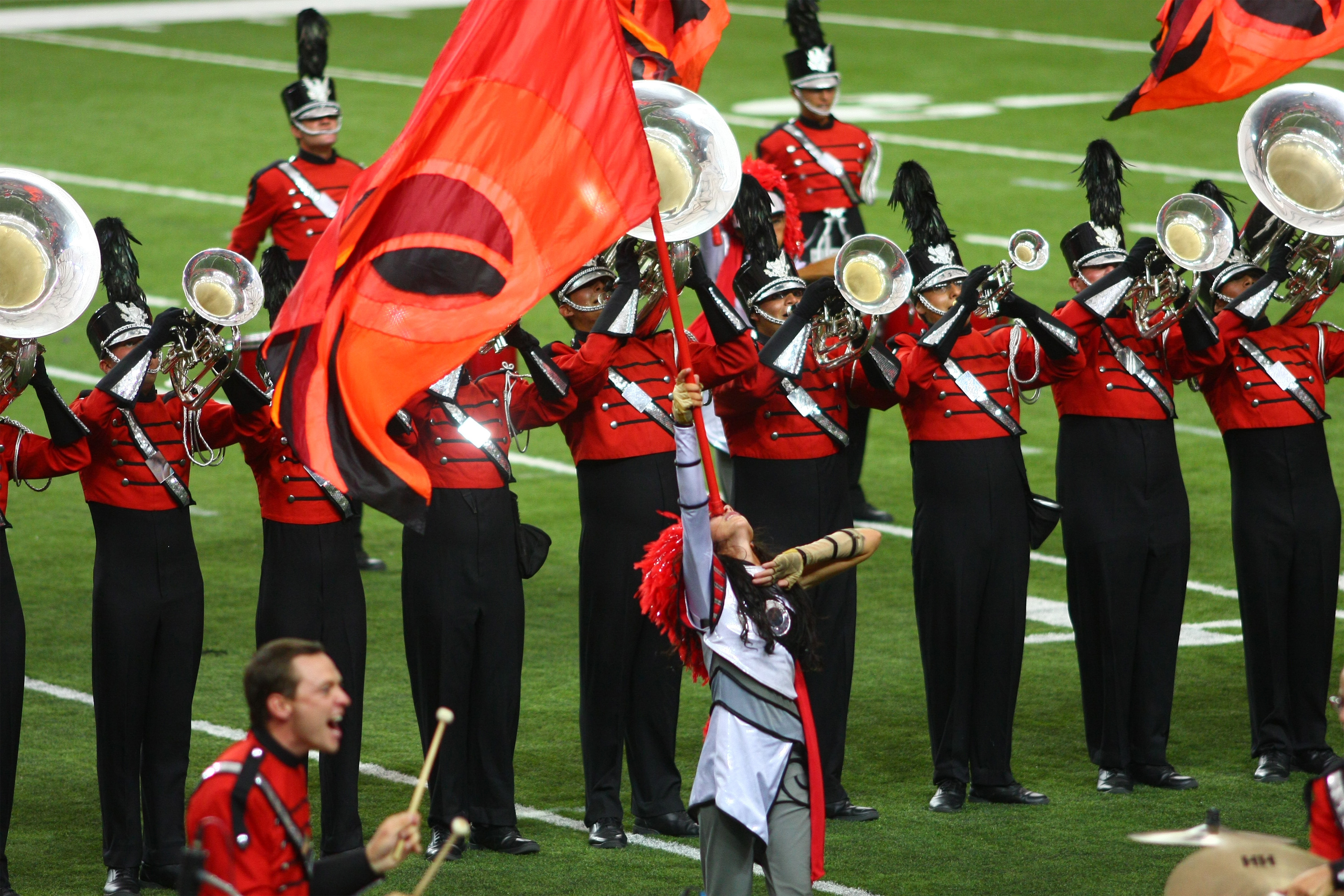 The Boston Crusaders at the DCI Southeastern Championship Prelims Atlanta, GA